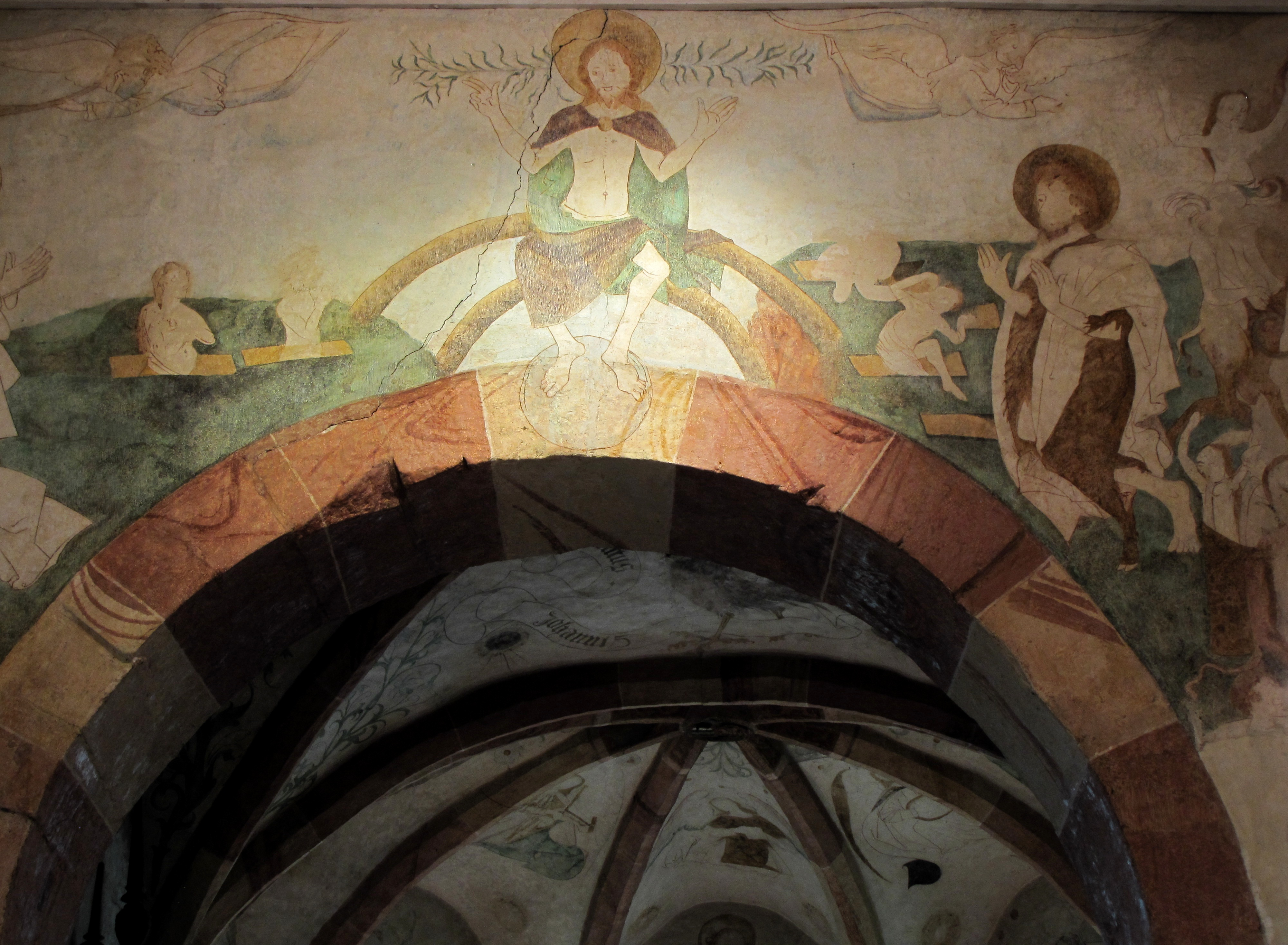 Alsace, Bas-Rhin, Baldenheim, Église protestante (PA00084595, IA67010725). Arc triomphal, Fresque gothique (XVe): Le Jugement Dernier. This object is indexed in the base Palissy, database of the French furniture patrimony of the French ministry of culture, under the references IM67014672, chœur IM67014640 chœur and nef IM67014641 nef.